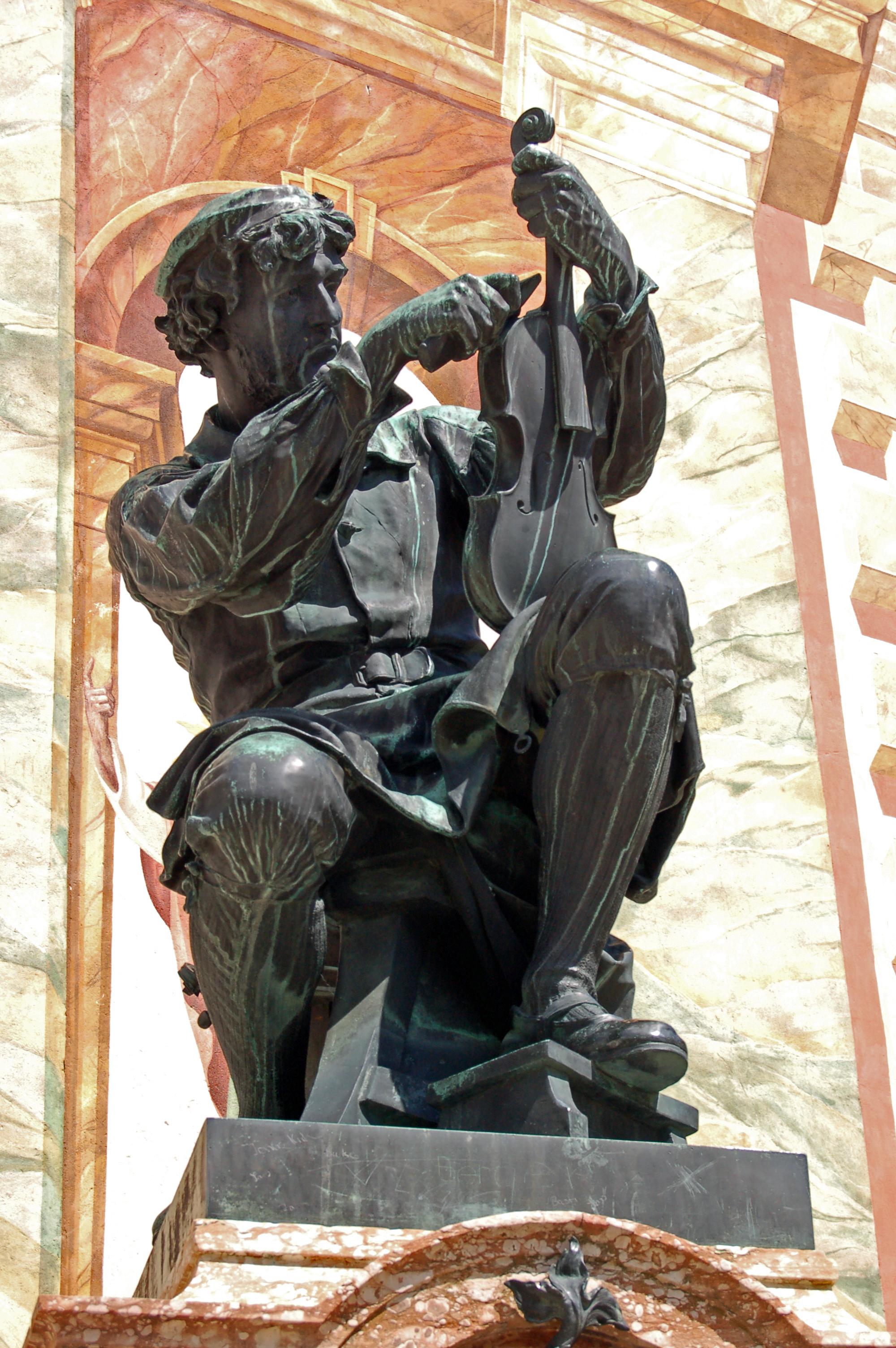 Memorial for the violin maker Matthias Klotz in Mittenwald, in front of the St. Peter and Paul church.